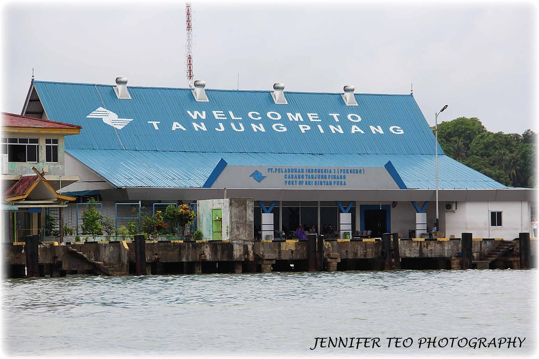 Tanjung Pinang Ferry Terminal